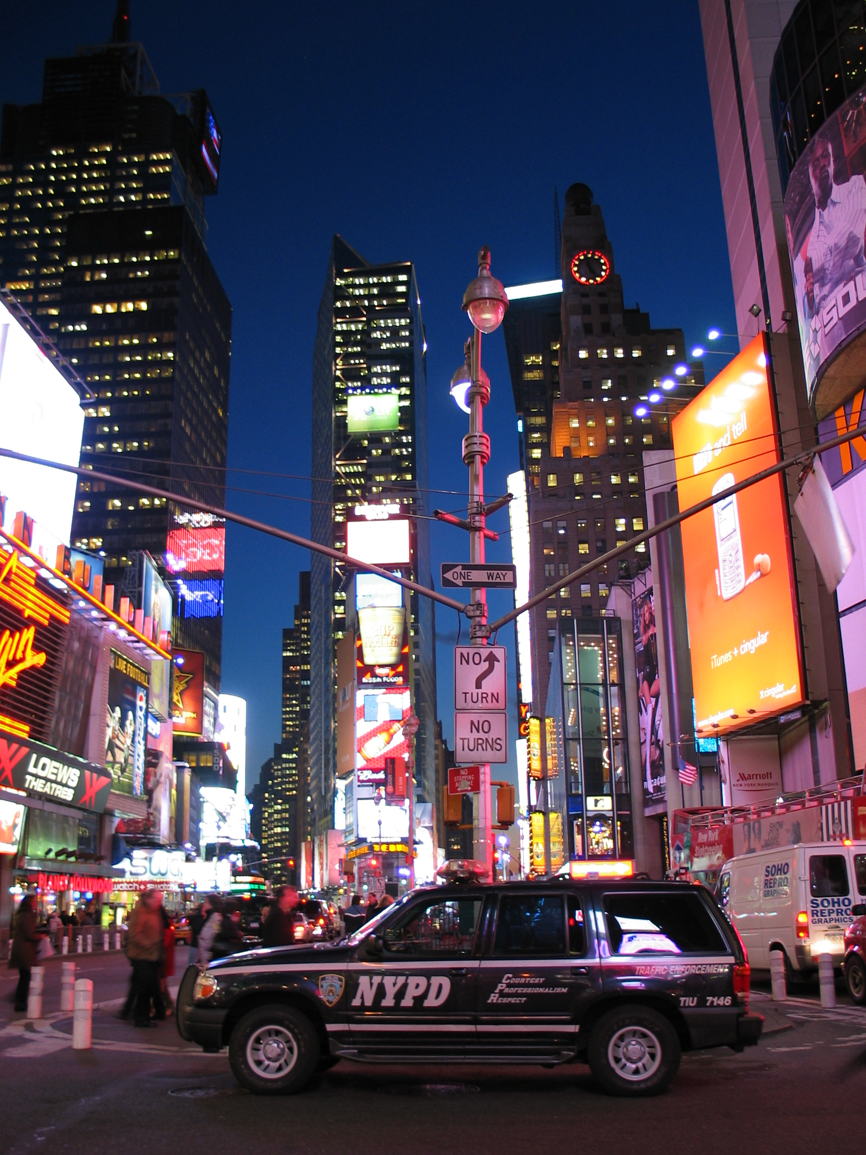 NYPD Traffic Enforcement Units on Times Square, New York City, USA These units are not Police Officers, nor are these "Police Cars". These traffic units work under the supervision of the NYPD and handle Parking Violations and Minor traffic infractions.